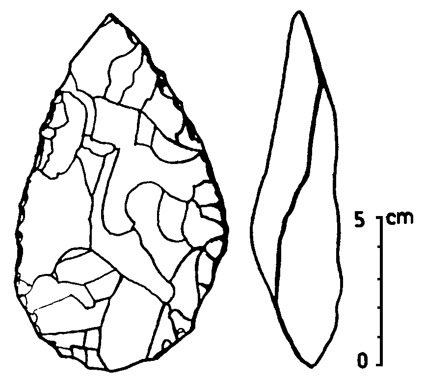 Cordate hand axe with twist edge.